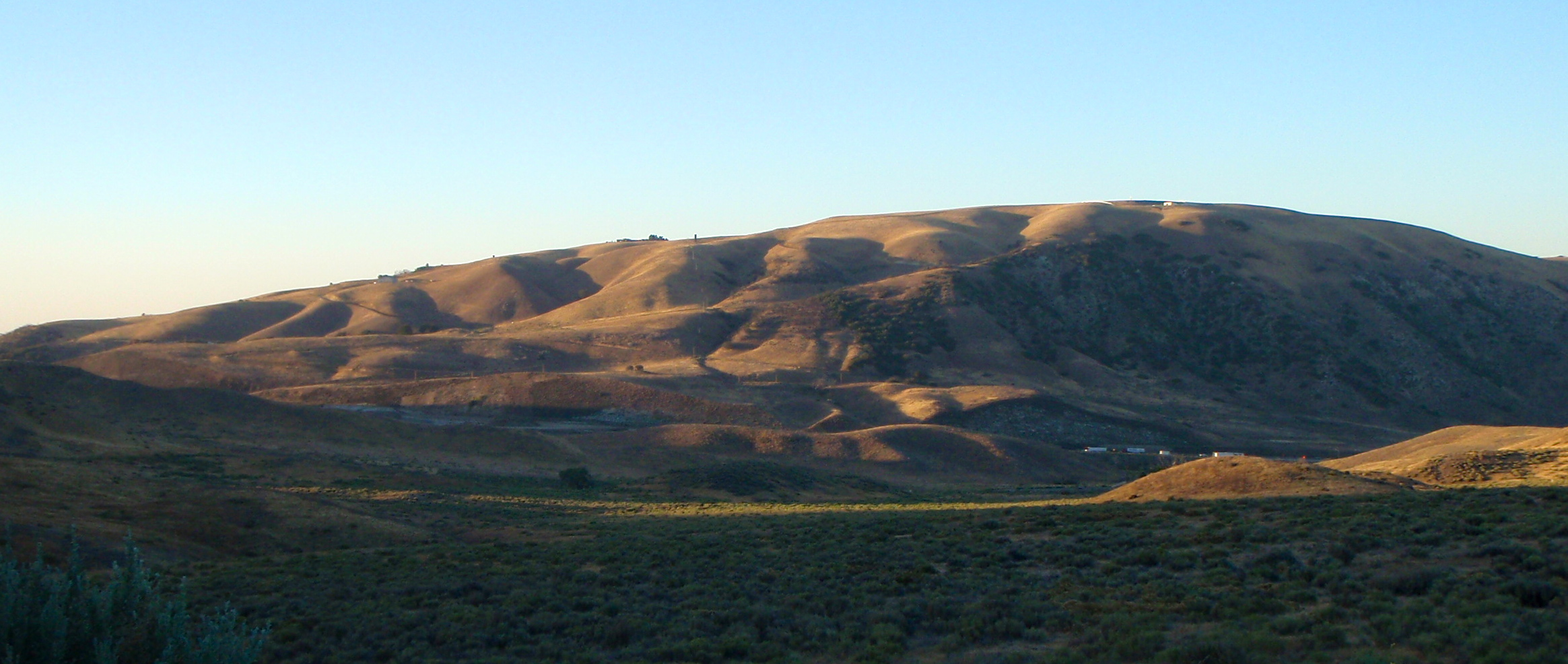 Convex, rounded hillslopes near Lebec, southern California, USA.